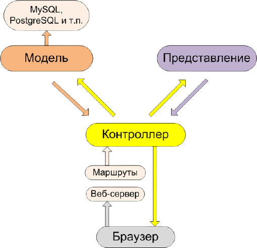 Scheme of MVC pattern